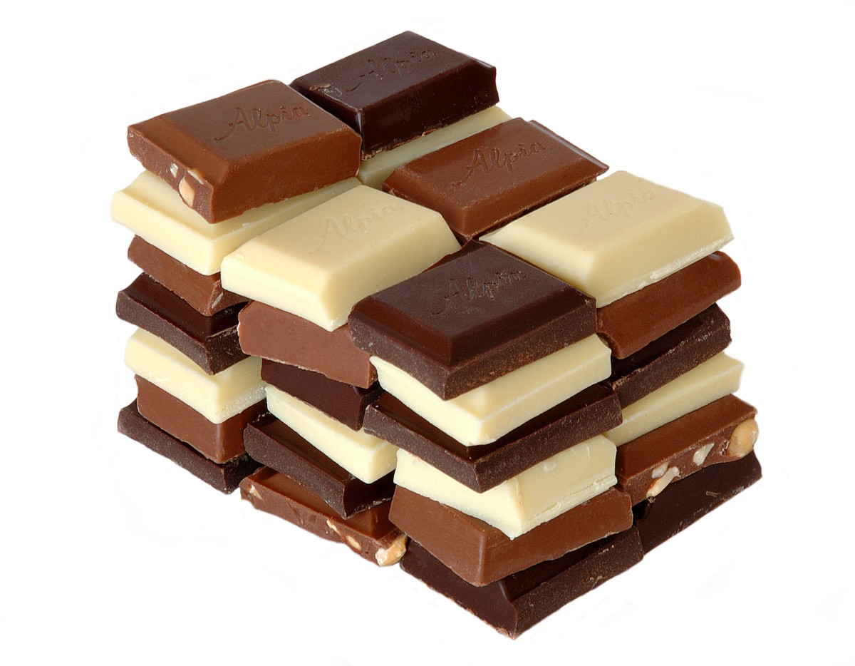 Alternative, temporary file for Wikipedia Featured Picture Candidates